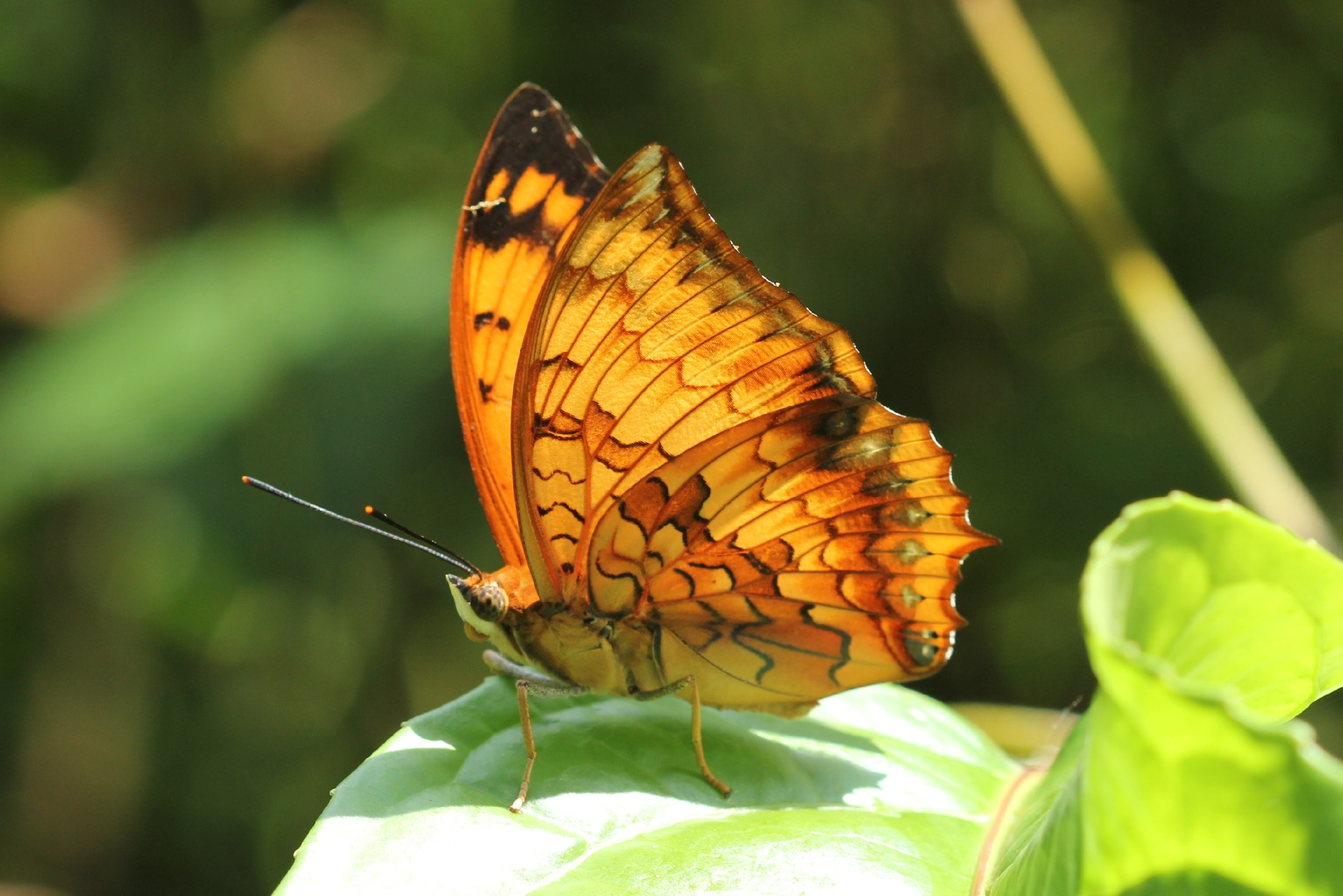 Variegated rajah at South Garo Hills in Meghalaya, eastern India